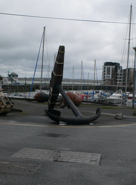 Anchor from the HMS Conway at Victoria Dock, Caernarfon First launched as the HMS Nile in 1839, it was renamed HMS Conway in 1875. The ship was brought to Bangor in 1941 and then to Plas Newydd, just north of Caernarfon, in 1949. The ship was wrecked in the Menai Strait in 1953, and this, one of 2 anchors, is displayed at Victoria Dock in Caernarfon.